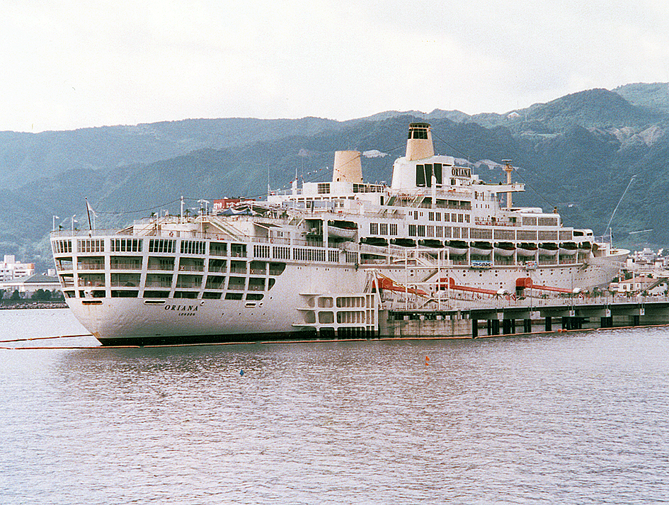 The Oriana used as a floating museum in Beppu.